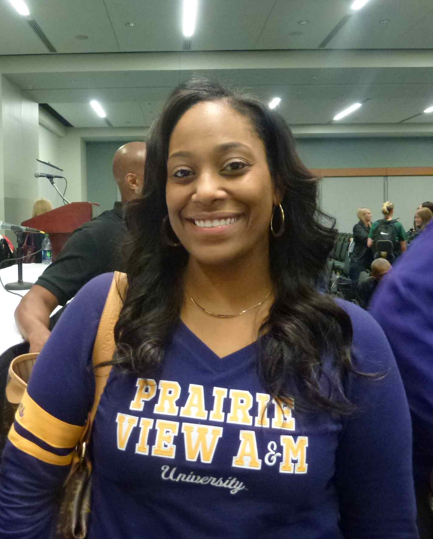 Dawn Brown, head coach of the Prairie View women's basketball team, speaking at a WBCA conference in Nashville, Tennessee